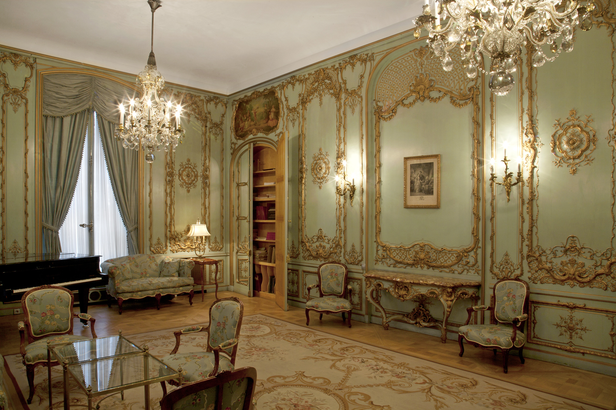 The U.S. Ambassador's Residence in Prague. Music salon with green painted walls lavishly decorated with gilt carvings, huge Oriental rug of warm colors and a fragile set of Louis XVI chairs and settees decorated with the finest Aubusson tapestries